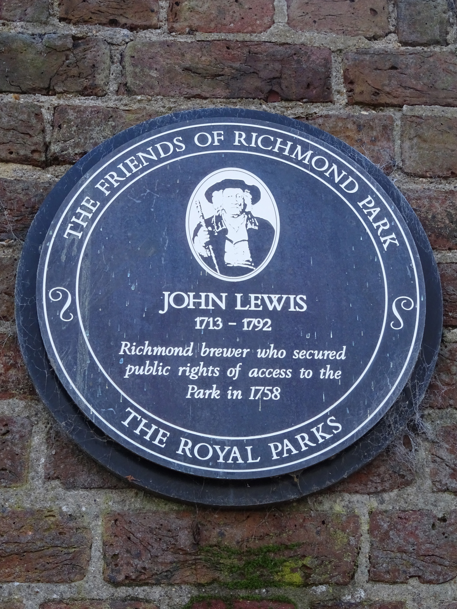 Blue Plaque at Sheen Gate Richmond Park London SW14 8BJ